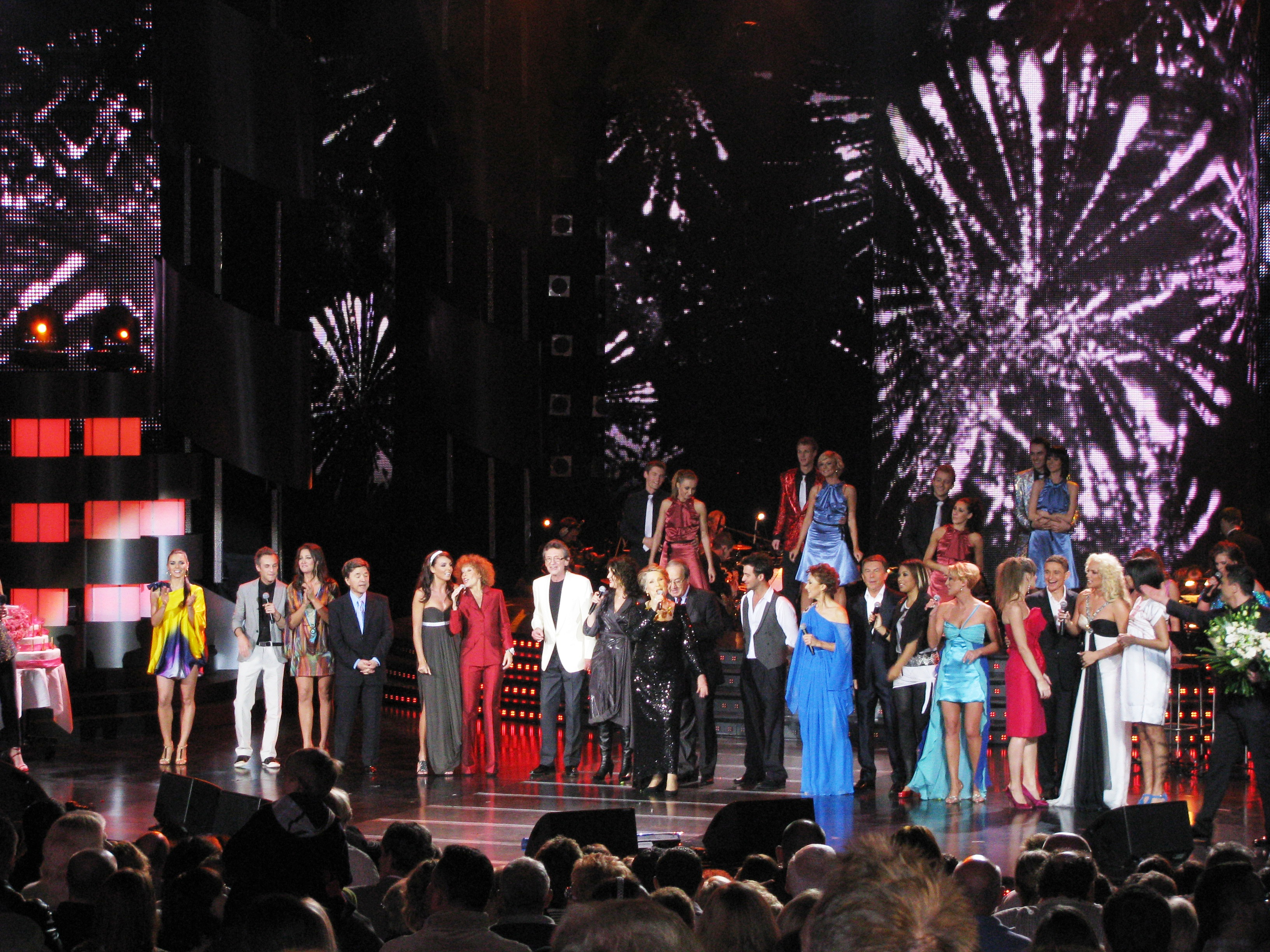 The Jubilee Concert of The Century of Opera Lesna in Sopot